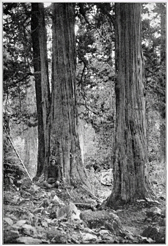 Junipers in Kama valley, east of Everest. Page 29 from Howard-Bury, C. K. (1922). Mount Everest the Reconnaissance, 1921 (1 ed.). New York, Longman & Green Photographer Alexander Frederick Richmond “Sandy” Wollaston (1875 - 3 June 1930)